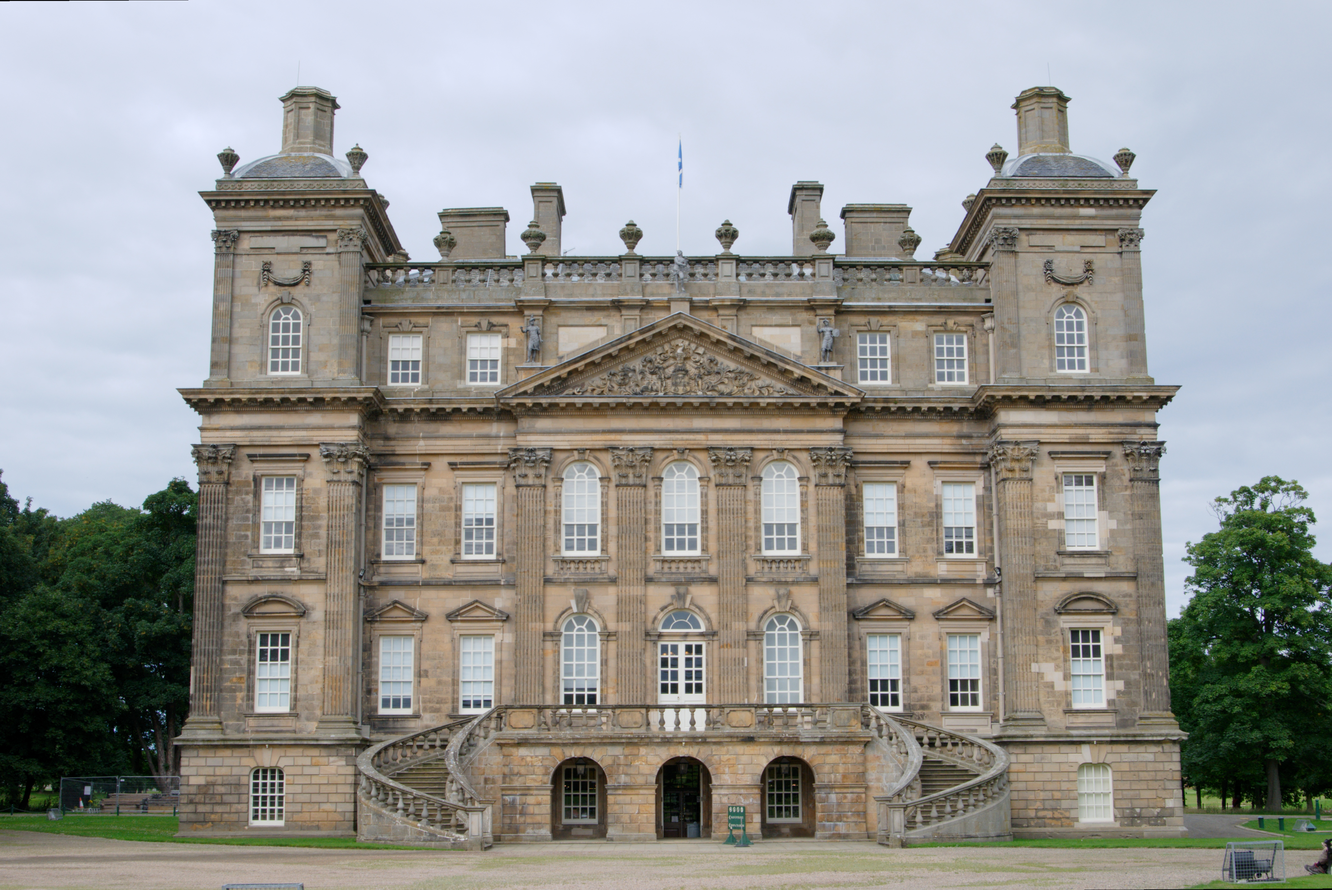 The Duff House in Banff